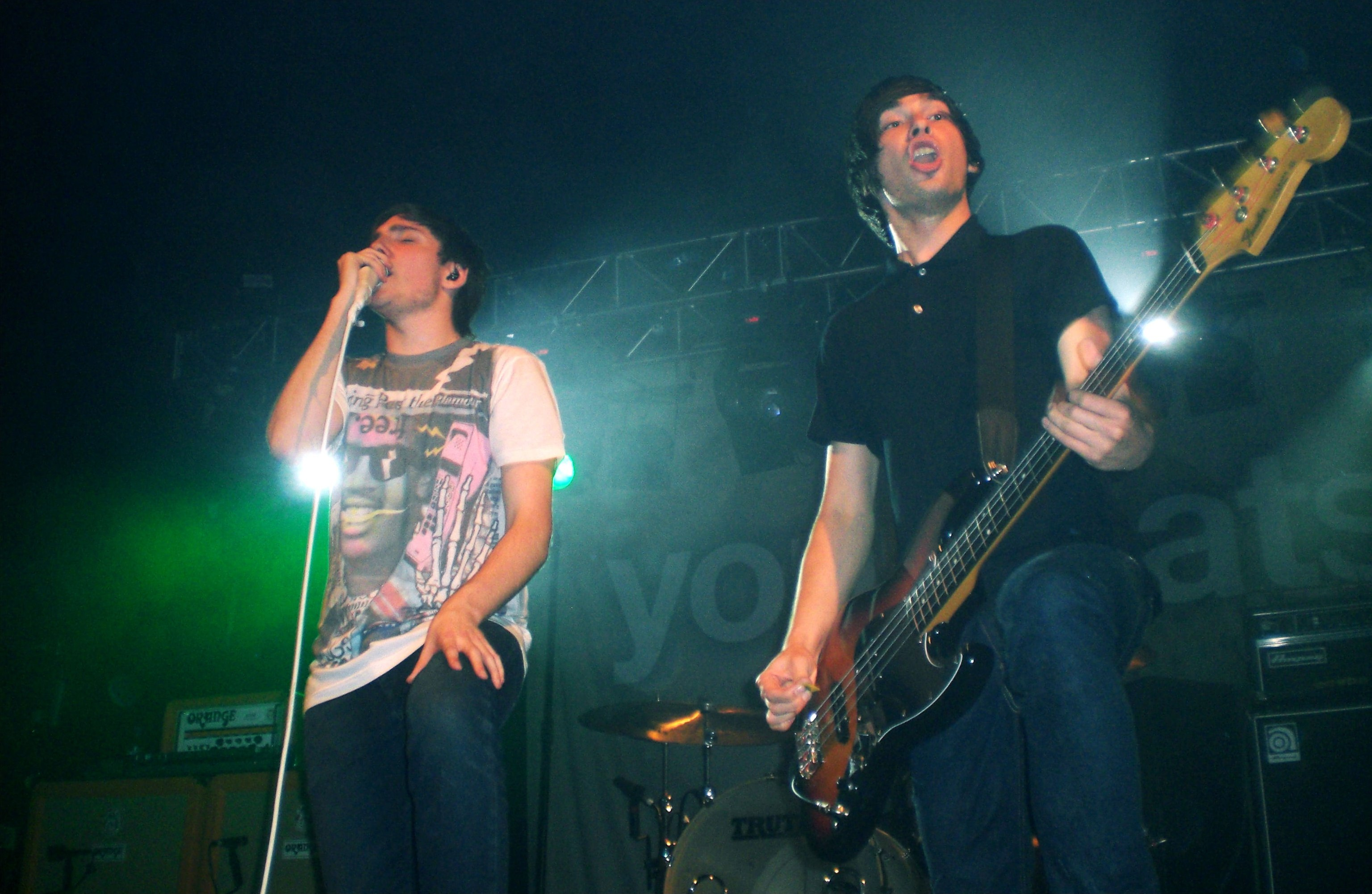 YOU ME AT SIX - Oxford, 26/10/08 Josh Franceschi=FIT + Matt Barnes